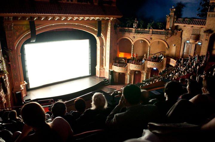 Miami International Film Festival photo